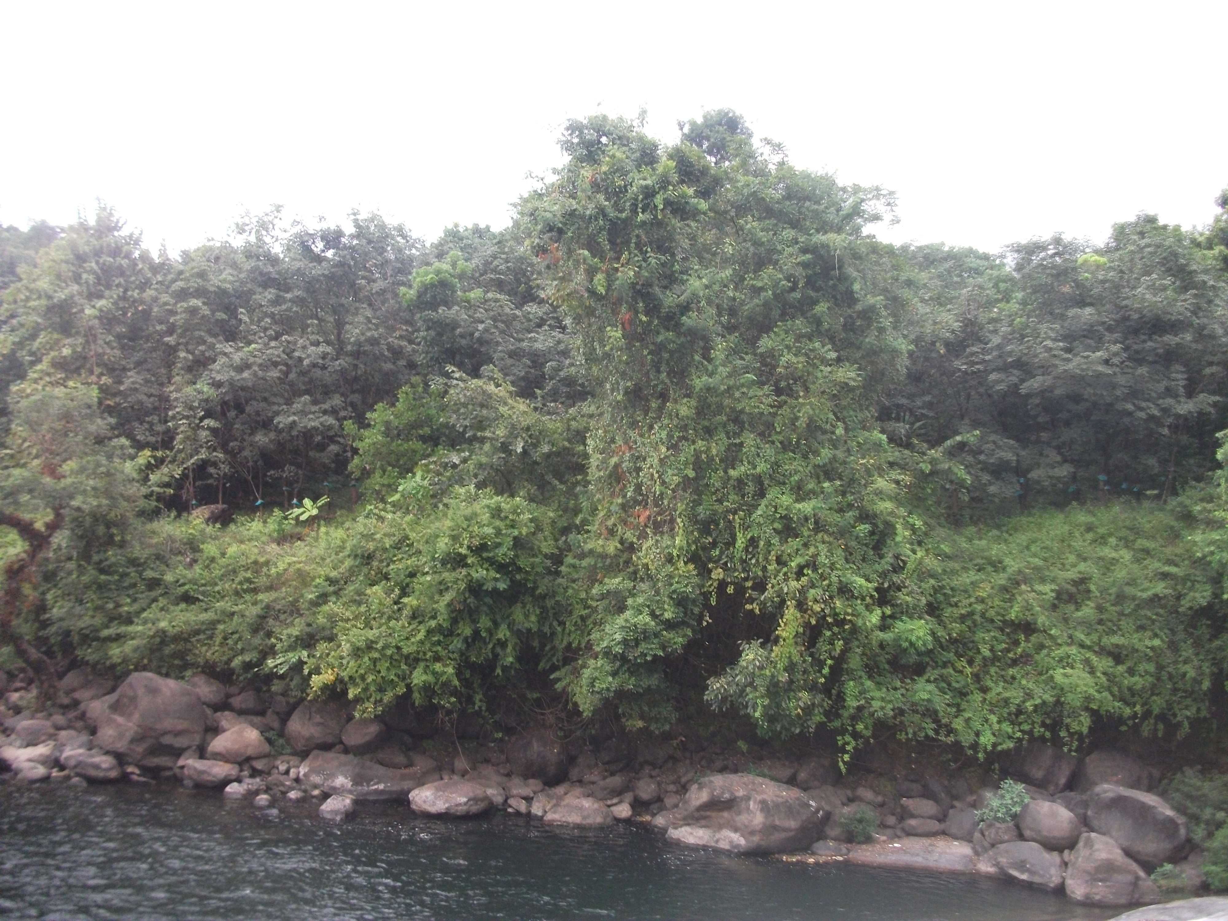 Arippara Waterfalls in Thiruvanpadi, Kozhikode district, Kerala